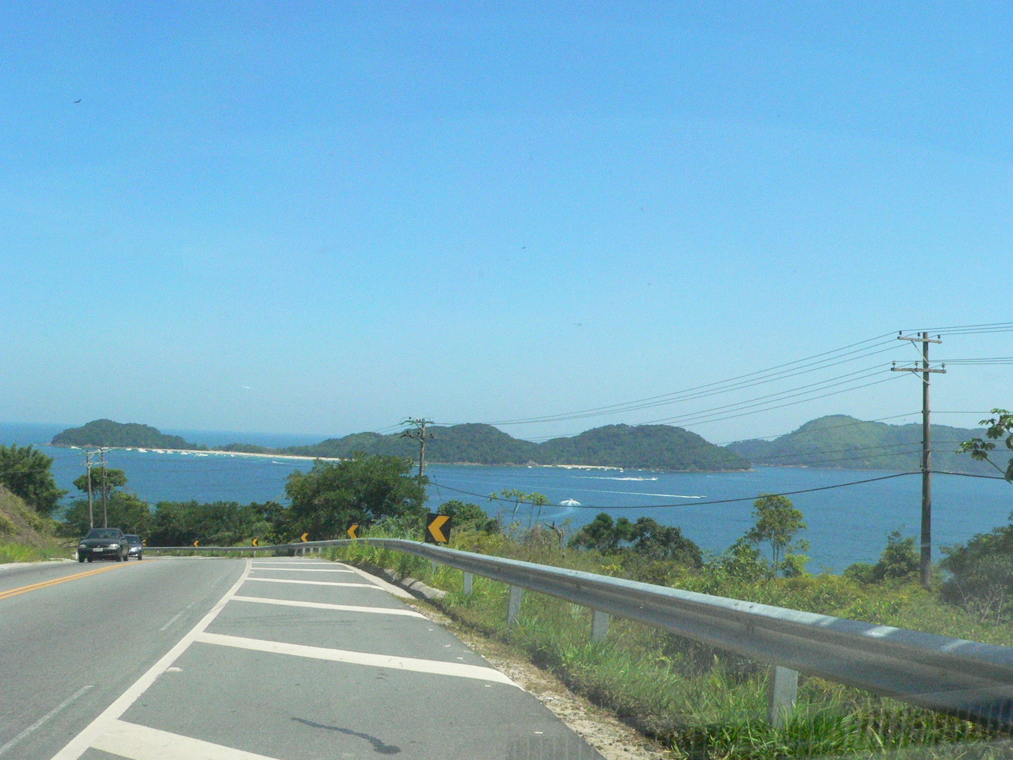 As Ilhas and Ilha das Couves seen from BR-101 (Prestes Maia Highway).